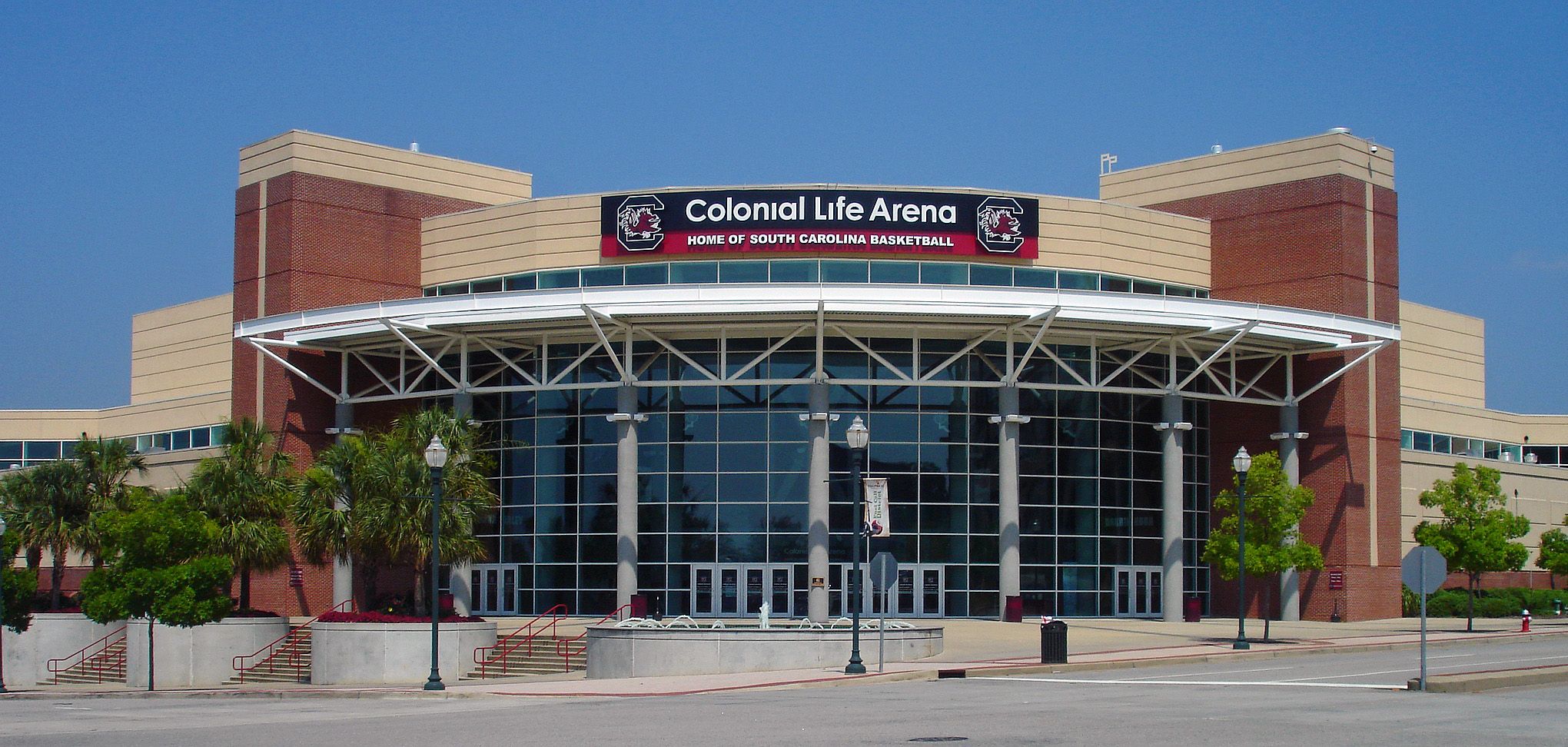 Colonial Life Arena, downtown Columbia, South Carolina, USA